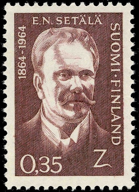 Postage stamp depicting Finnish linguist and statesman E. N. Setälä (Eemil Nestor Setälä)